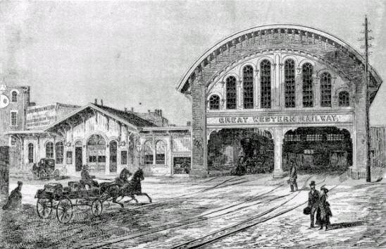 Great Western Railway Station, Toronto, Canada.